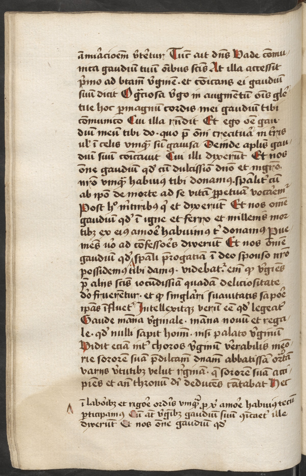 Ms.247, fol. 40v.